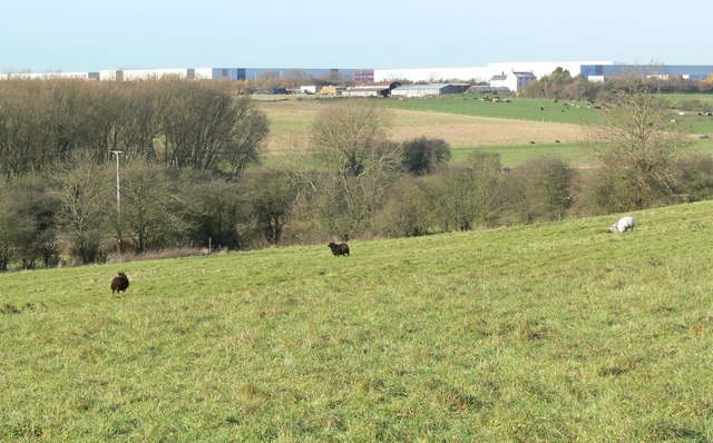 Magna Park viewed from Moorbarns Lane Near Lutterworth in Leicestershire.